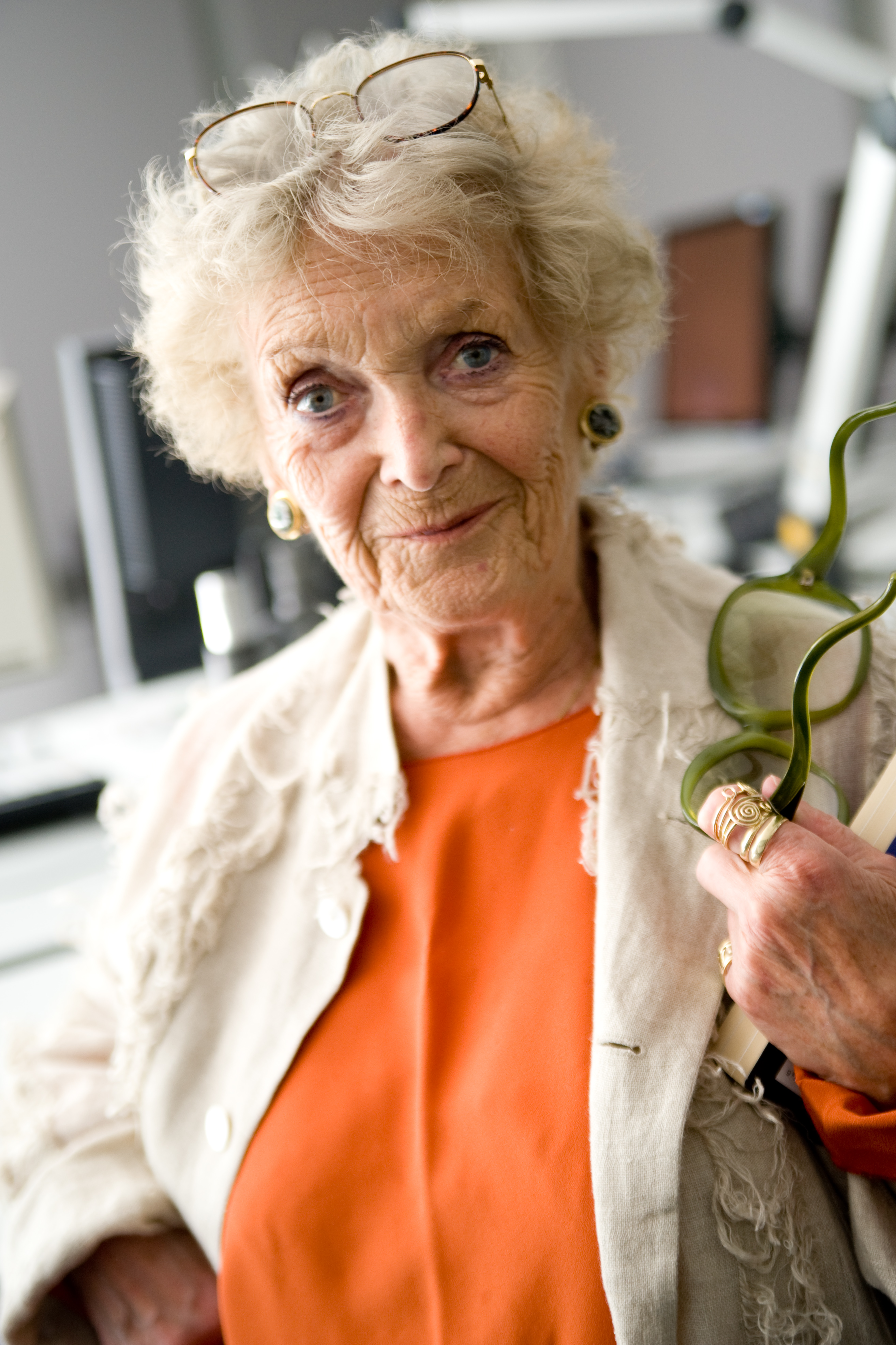 Swiss Actress Stephanie Glaser during a visit at Radio Pilatus, Lucerne, Switzerland